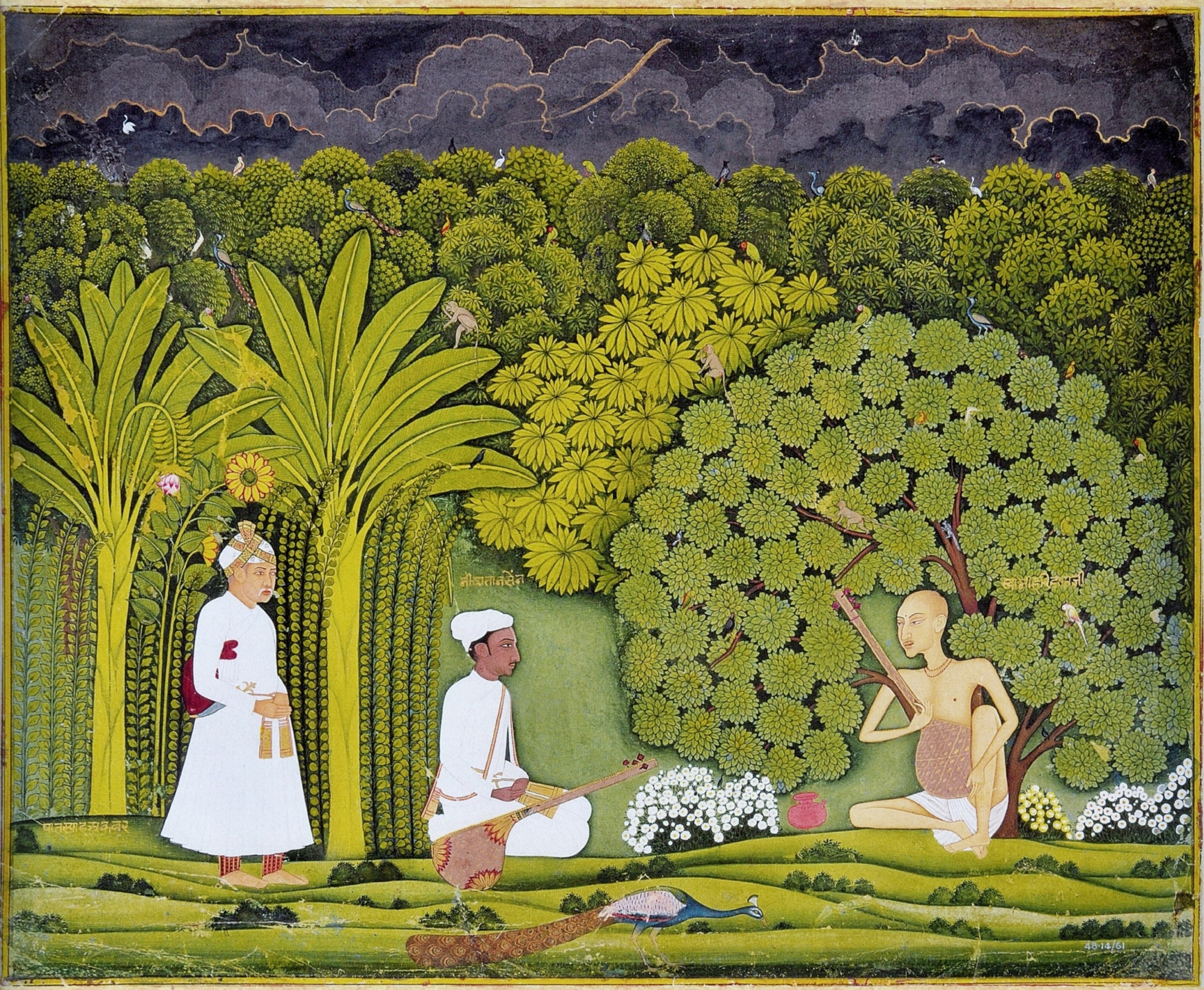 Akbar and Tansen visit Swami Haridas in Vrindavan. Swami Haridas is to the right, playing the lute; Akbar is to the left, dressed as a common man; Tansen is in the middle, listening to Haridas. Jaipur-Kishangarh mixed style, ca. 1750